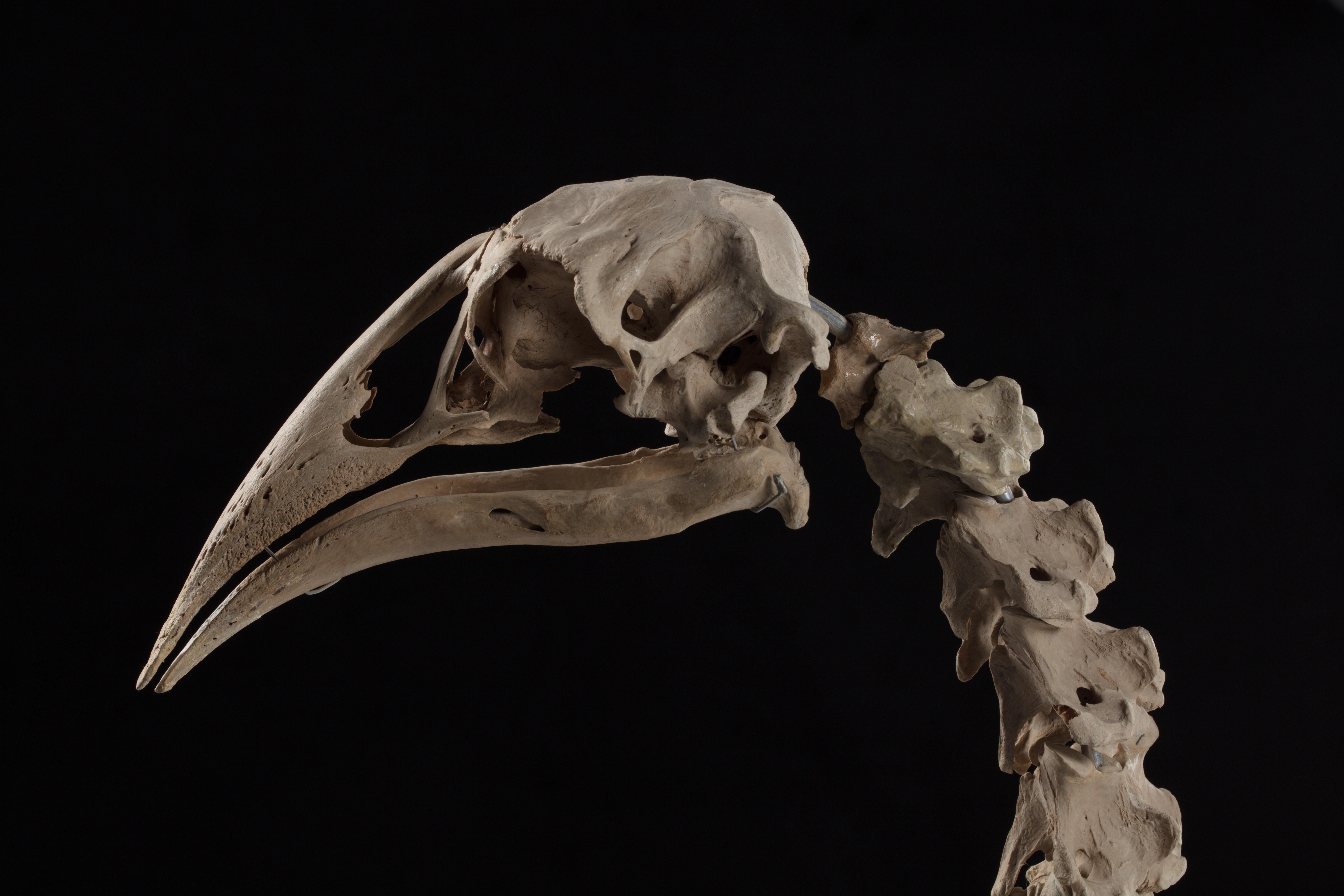 Aptornis defossor, Pyramid Valley, North Canterbury: fossil bones